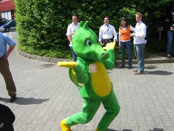 "Tabaluga" at "ZDF Fernsehgarten"